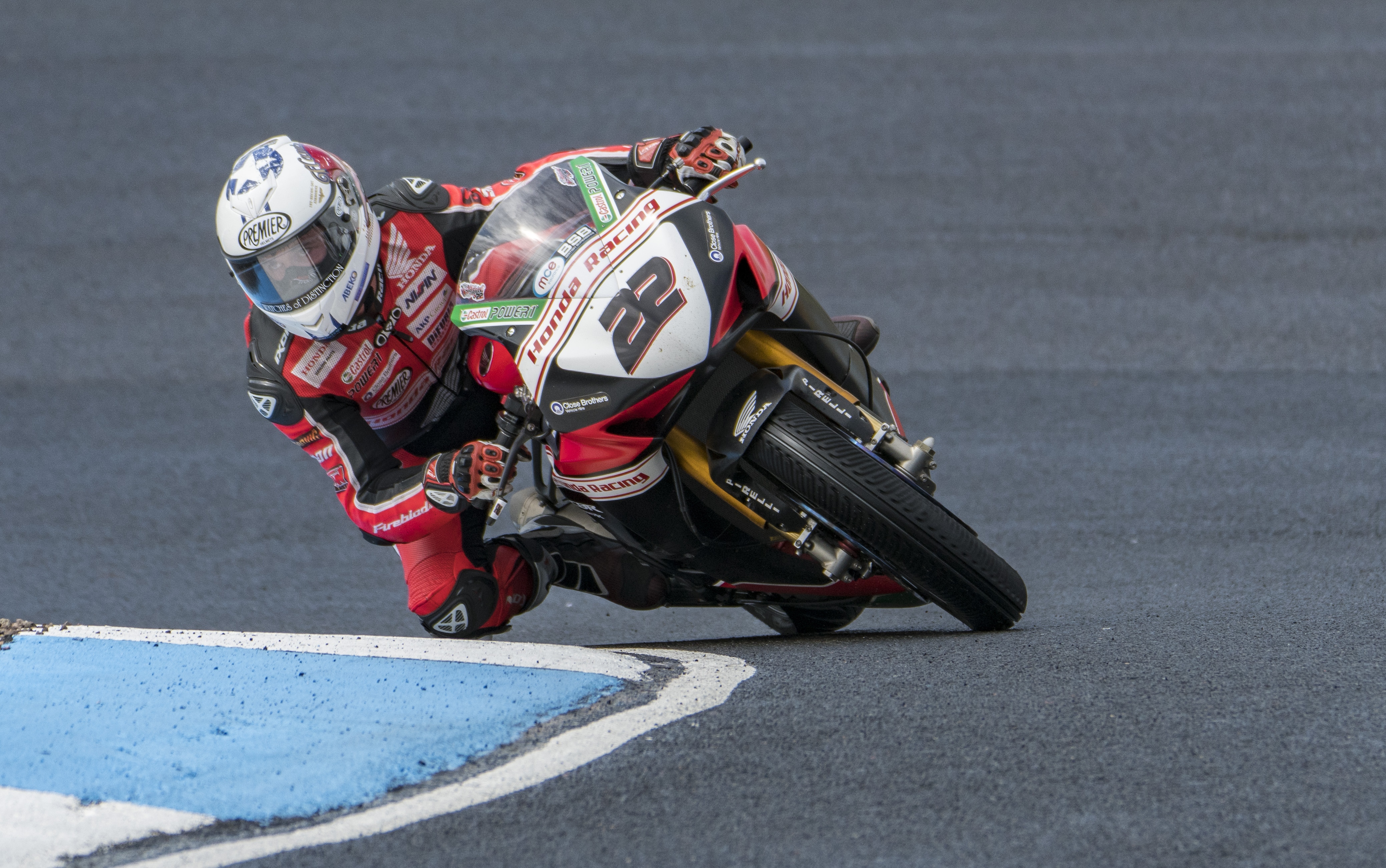 2016 British Superbike Championship Round 4, Knockhill – #22 Jason O'Halloran – Honda – Honda Racing